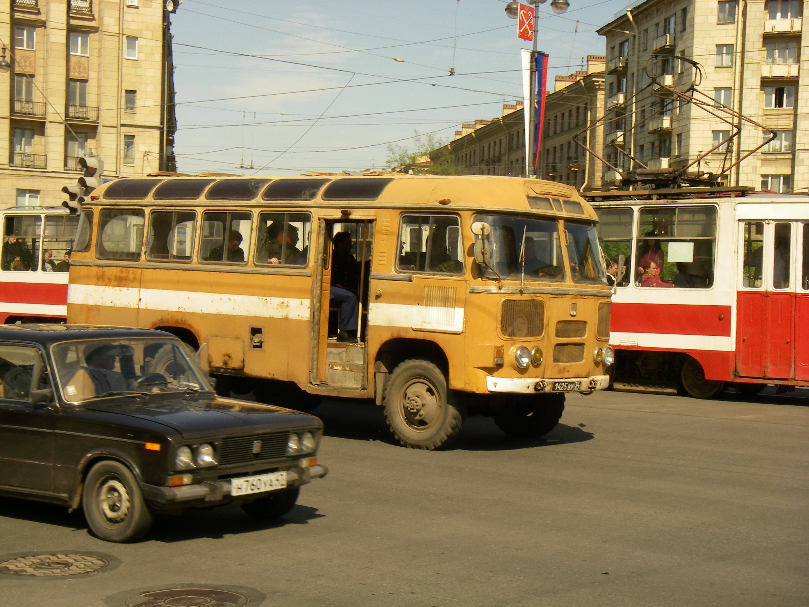 PAZ-3201 on Moskovsky prospect in Saint Petersburg